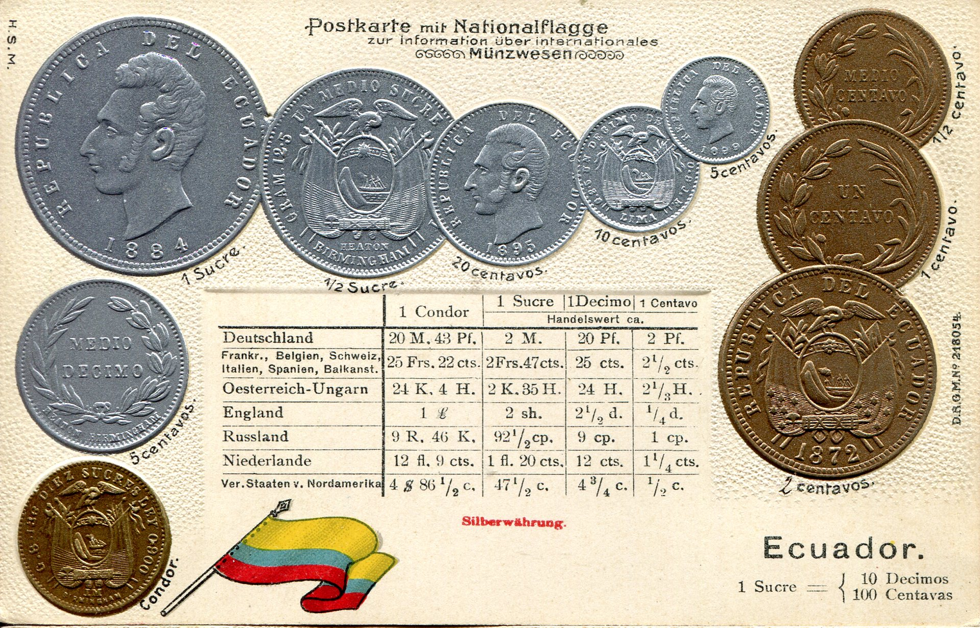 A postcard that depicts the coins that circulated at the time.